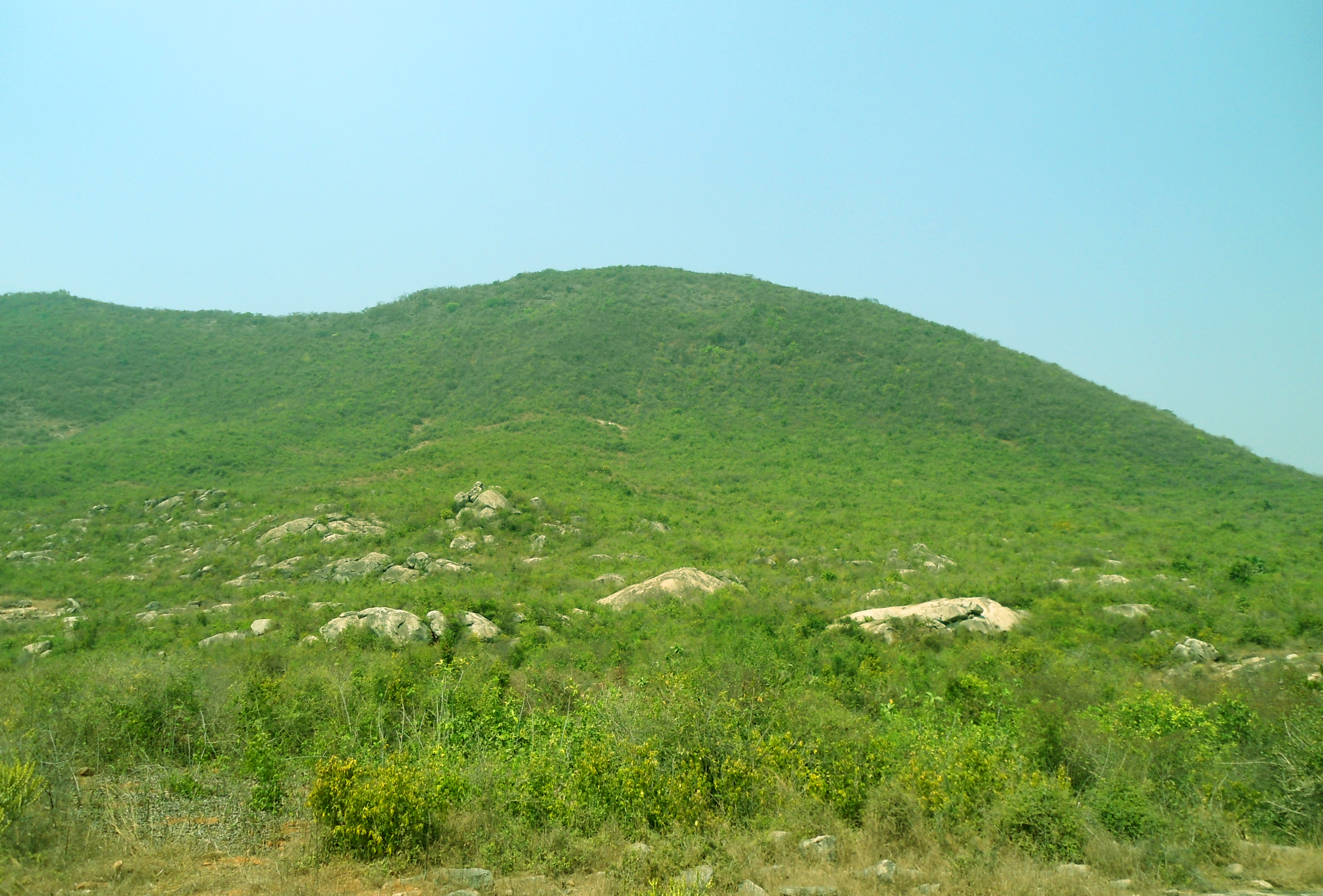 Dry deciduous Jungles at Ramatheertham Hills in Vizianagaram district, Andhra Pradesh